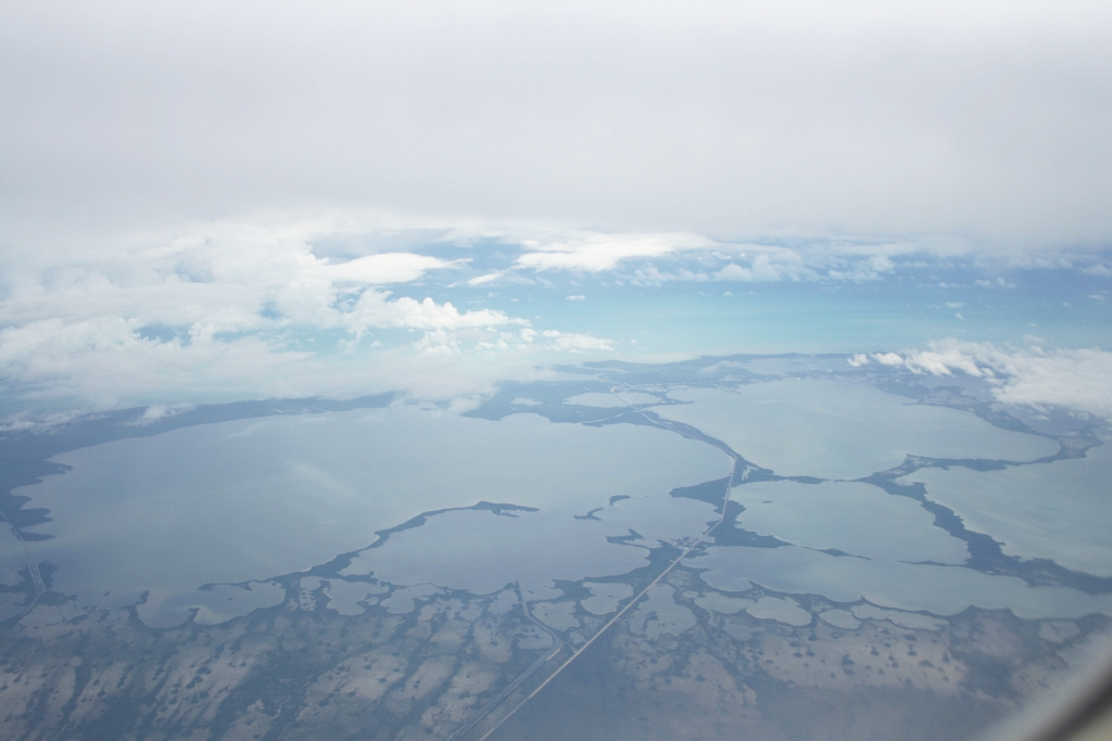 Aerial view of the Overseas Highway between Florida City and Key Largo